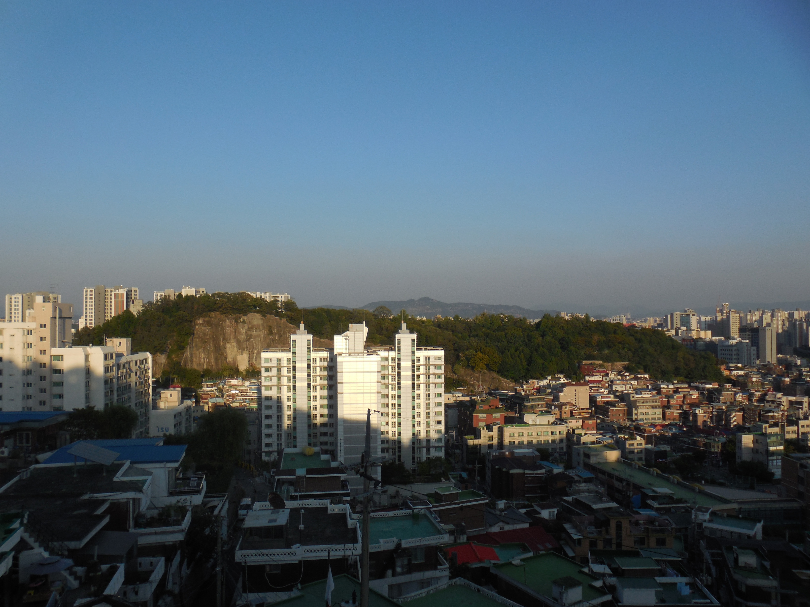 Westside of Dongmangbong, a mountain in Seoul.